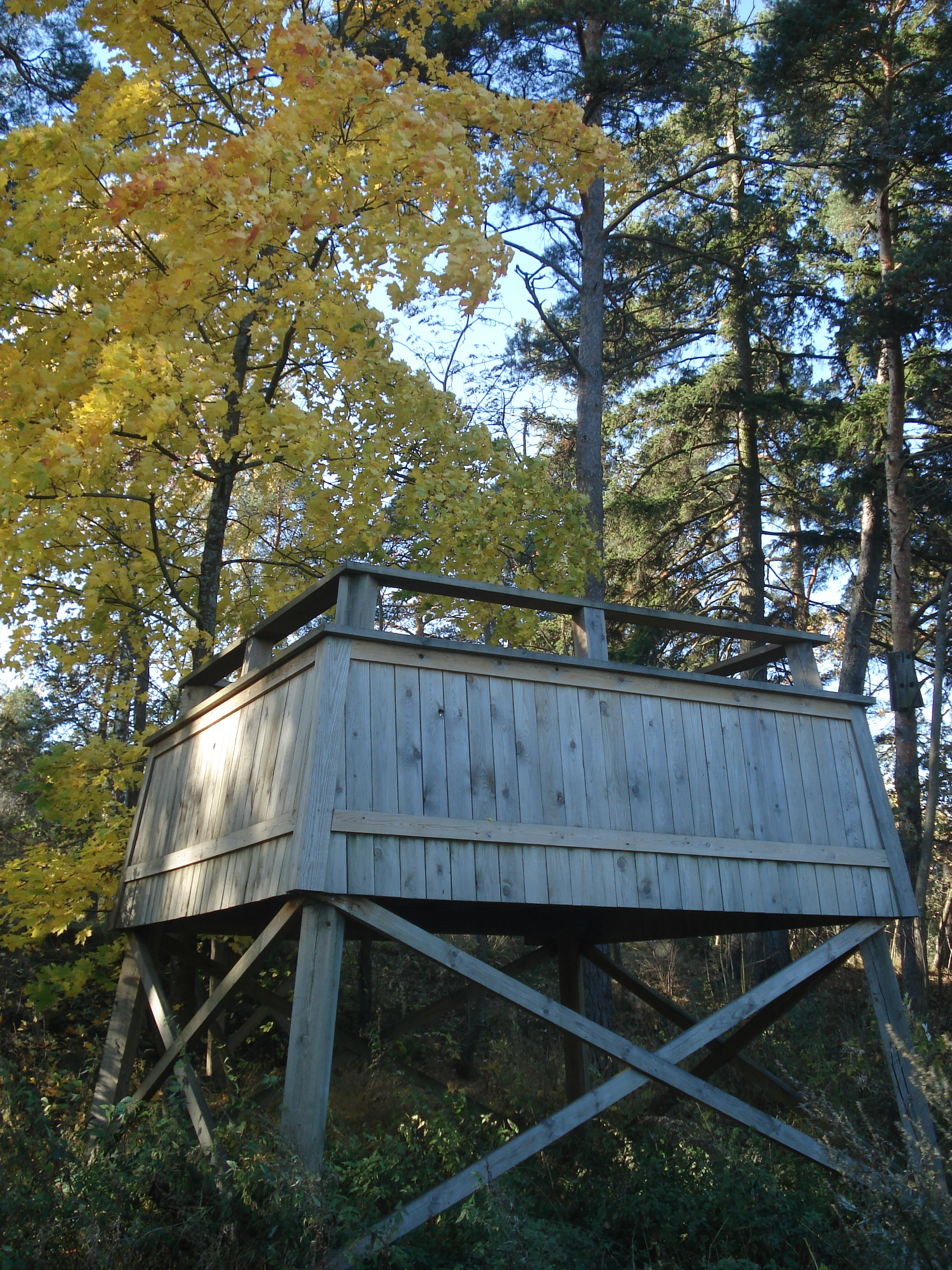 Luolalanjärvi is a lake in Naantali, Finland. In the picture is a bird watching tower located at lake W-corner.